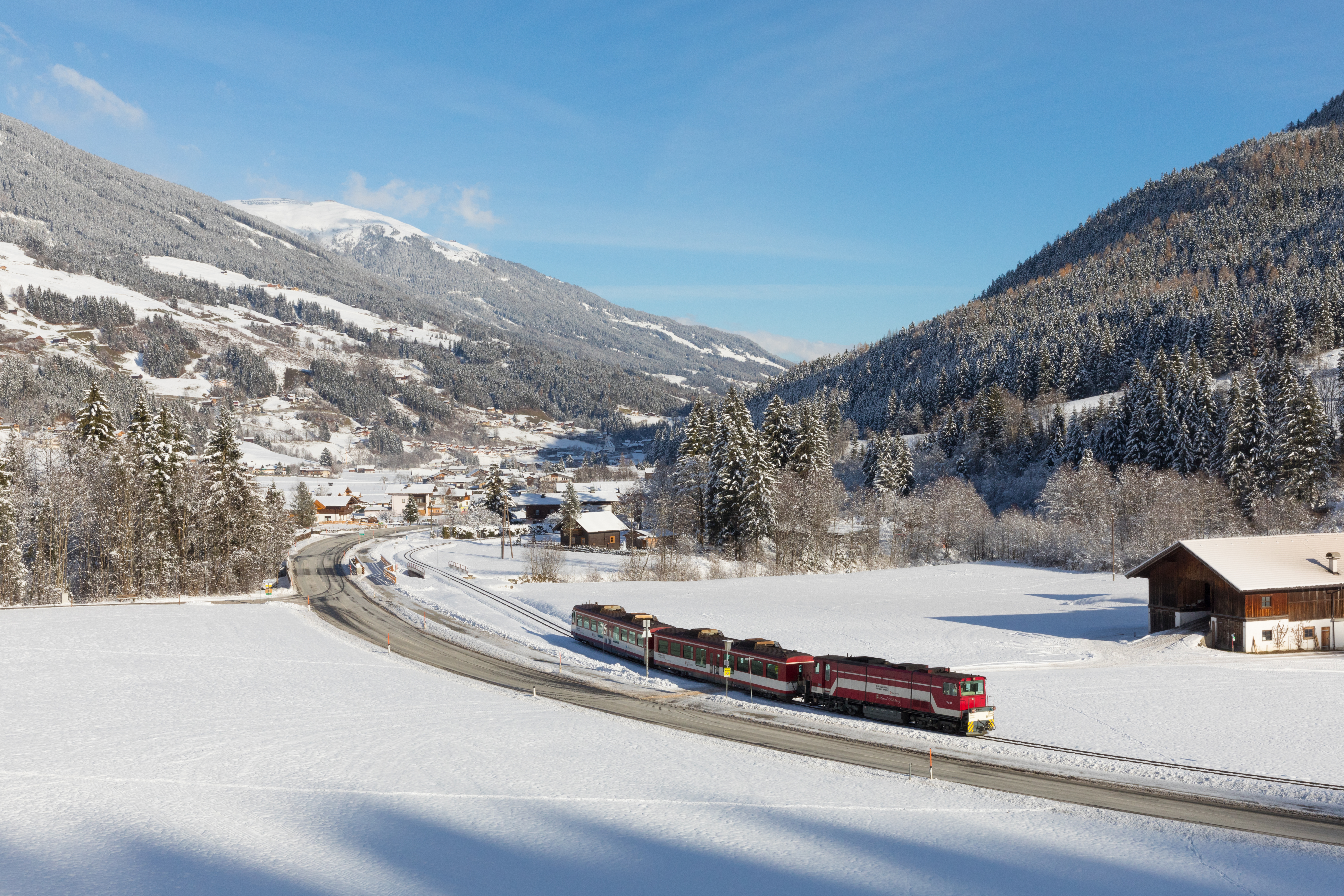 A train of Pinzgauer Lokalbahn approaching Krimml station.